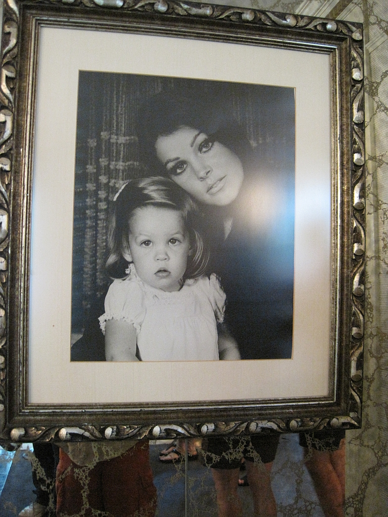 Graceland during Elvis Week 2011